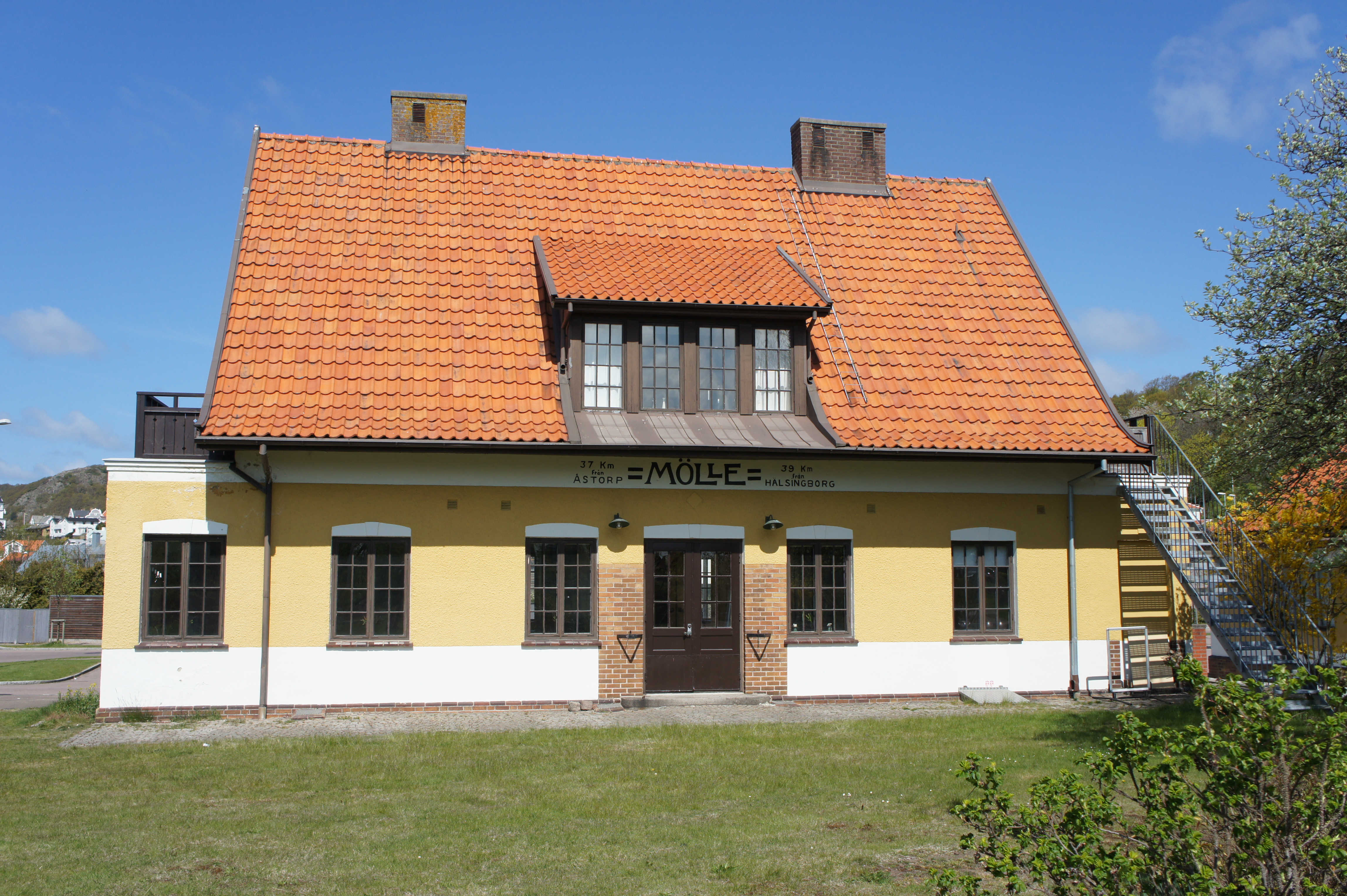 The old railway station at Mölle, Sweden